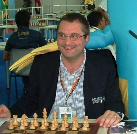 photo of chess Grandmaster Michele Godena